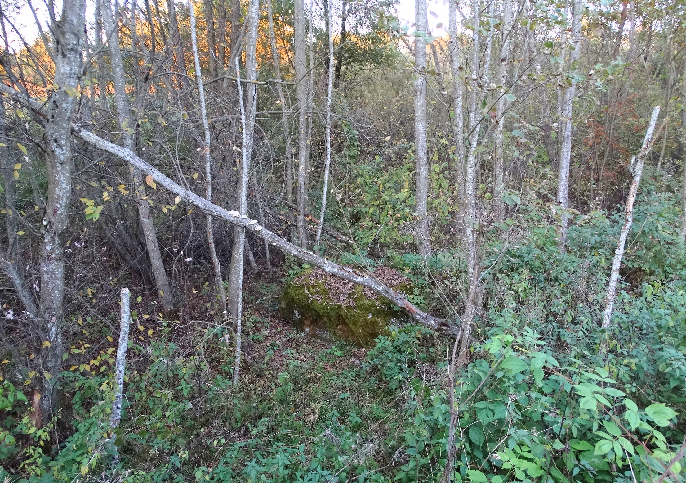 Čigonės Stone, Ringailiai, Kaišiadorys district, Lithuania